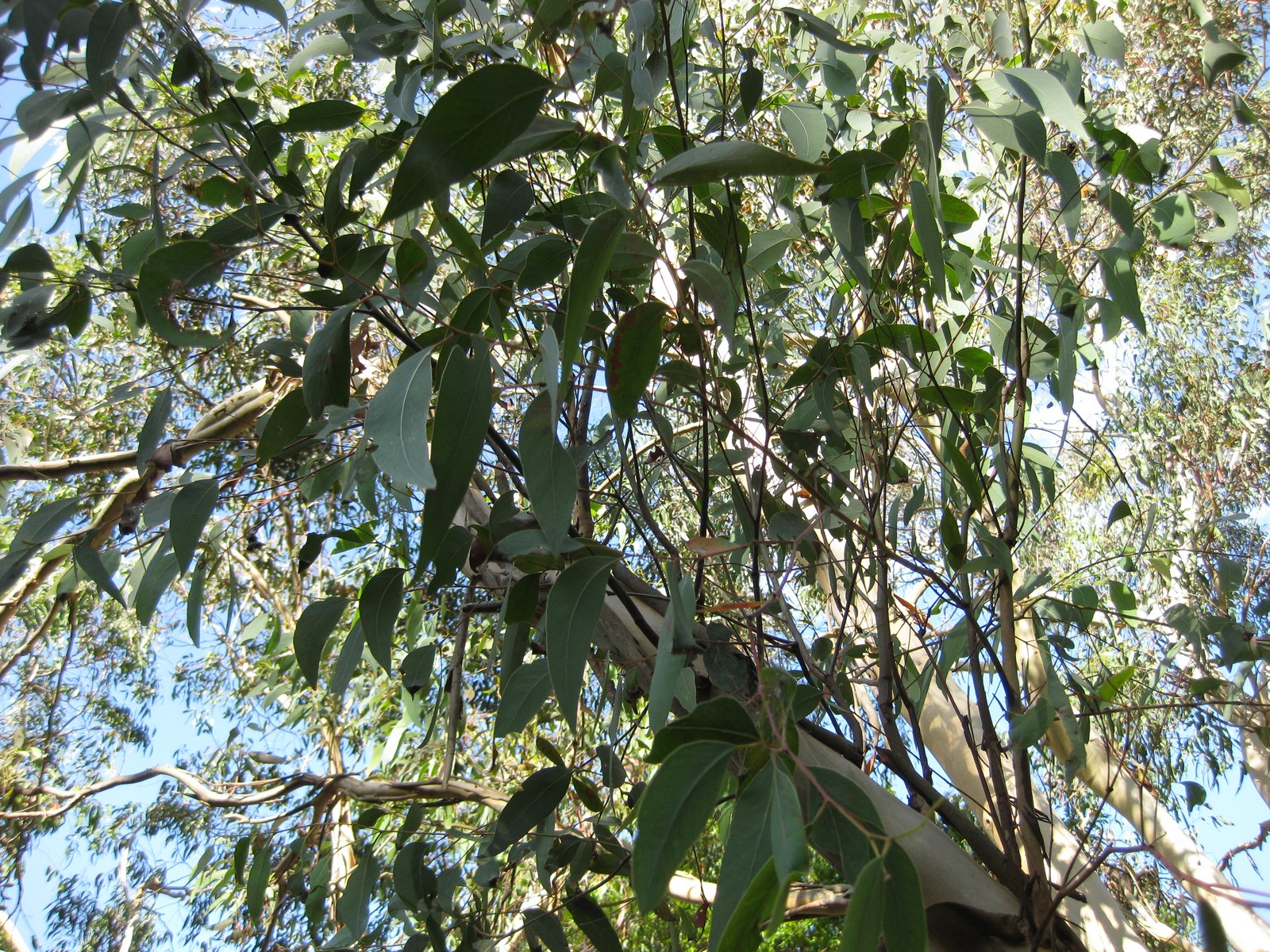 Photographed at the Royal Botanic Gardens Sydney (Australia) in December